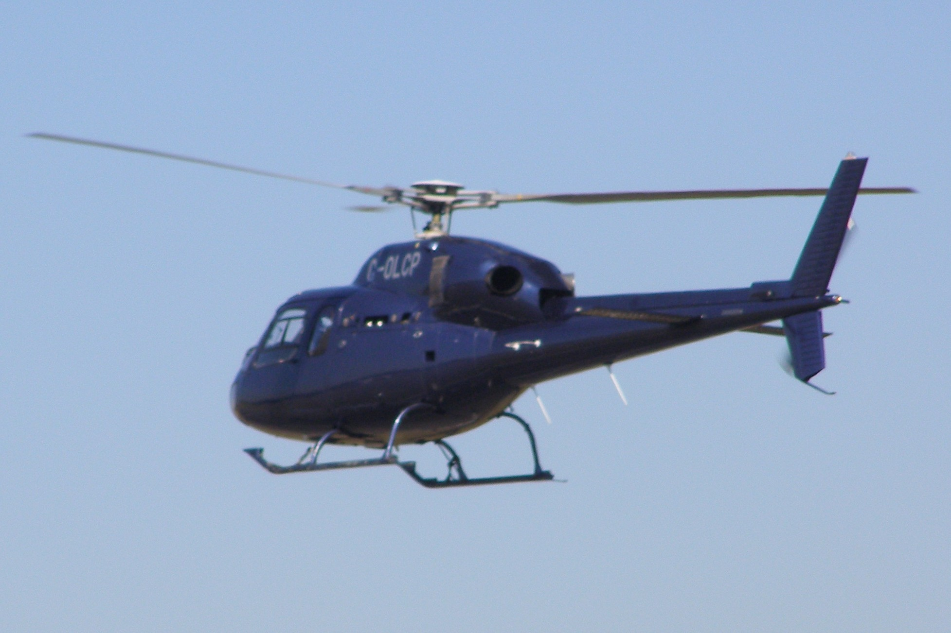 1994-Built Eurocopter AS355N registration G-OLCP a vistor during Farnborough Air Show 2006